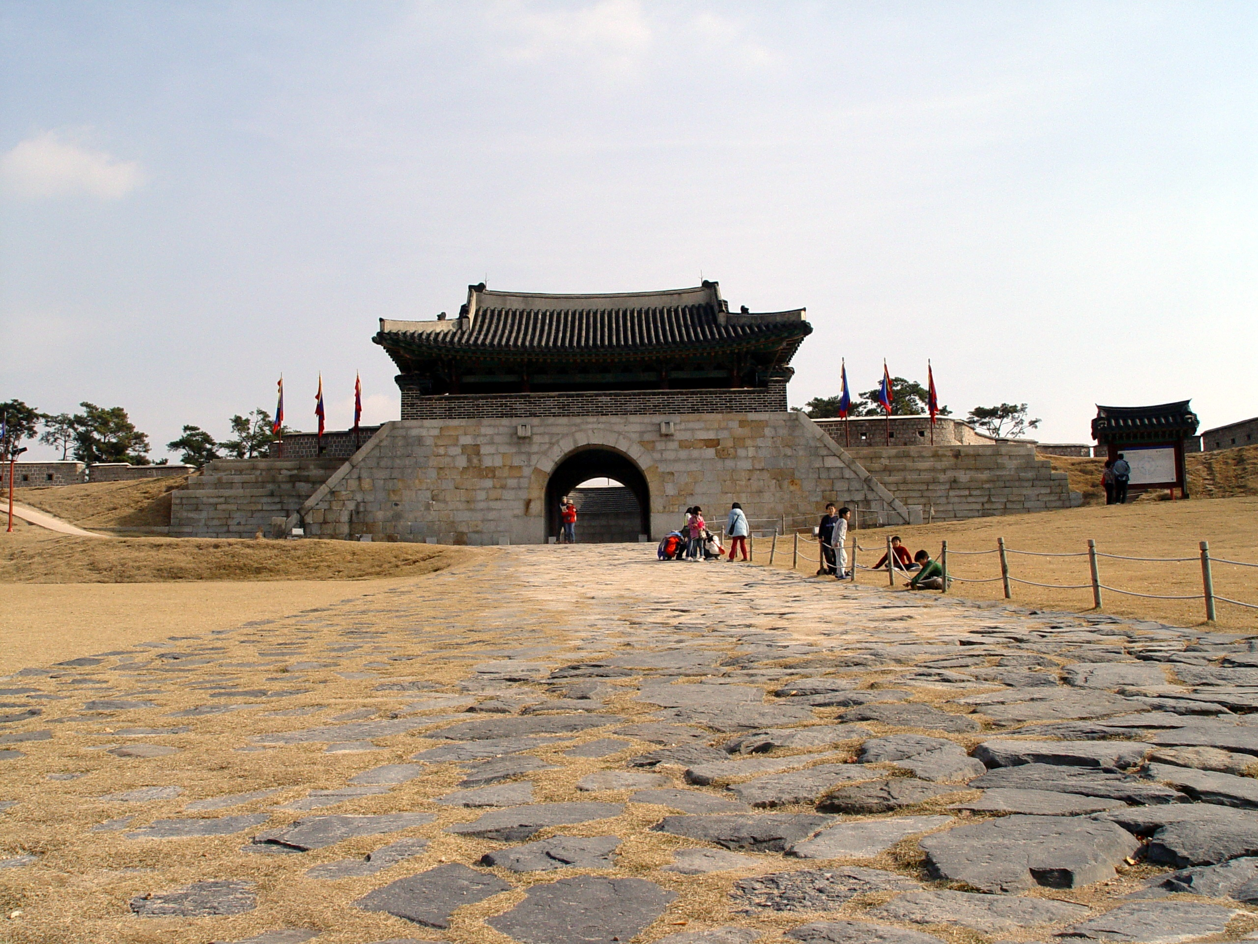 West side of Changryongmun, Hwaseong Fortress, Suwon, South Korea